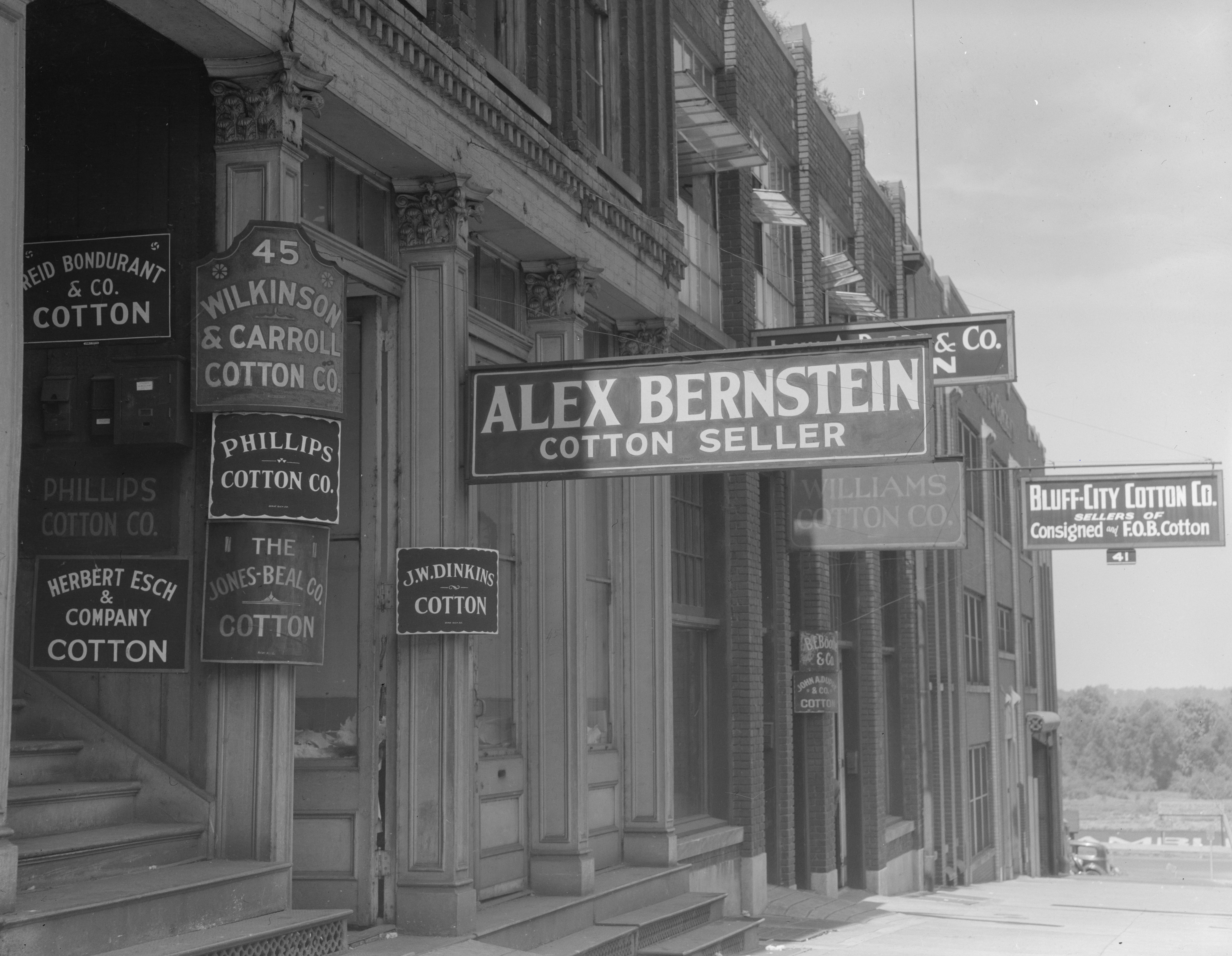 Looking down Union Avenue. Memphis, Tennessee. Lange, Dorothea, photographer. CREATED/PUBLISHED 1937 June. NOTES Title and other information from caption card.